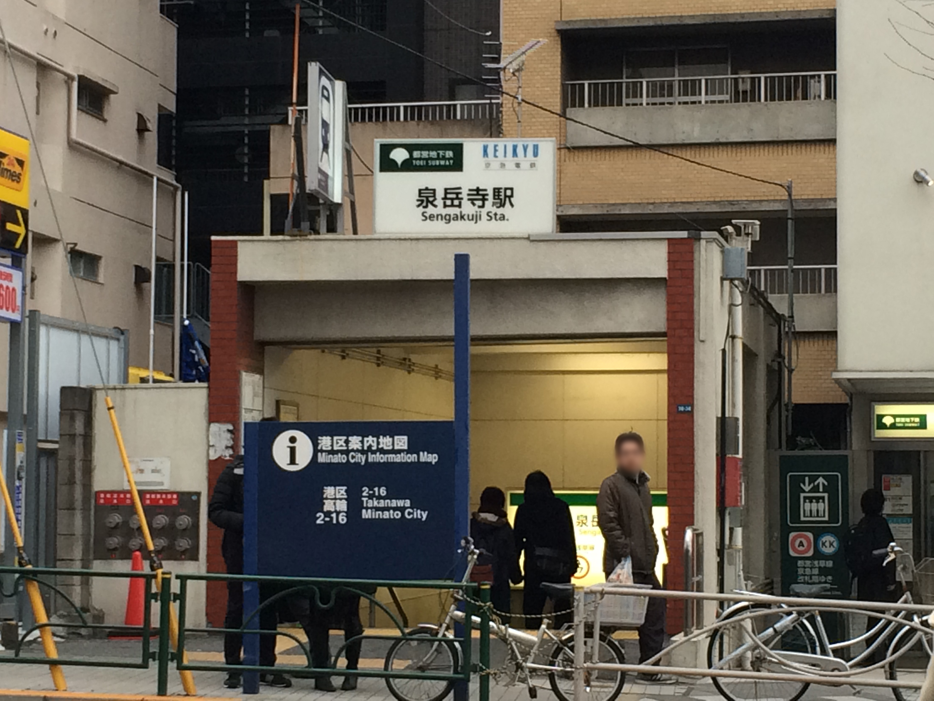 Sengakuji Station on the Asakusa Line and Keikyu Line